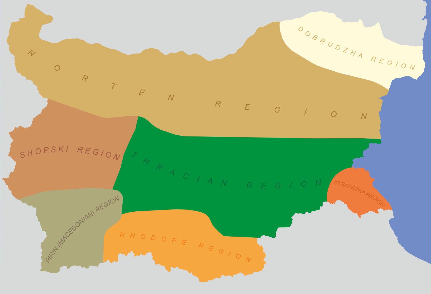 Map of the Folklore regions of Bulgaria Used maps: [3], [4]